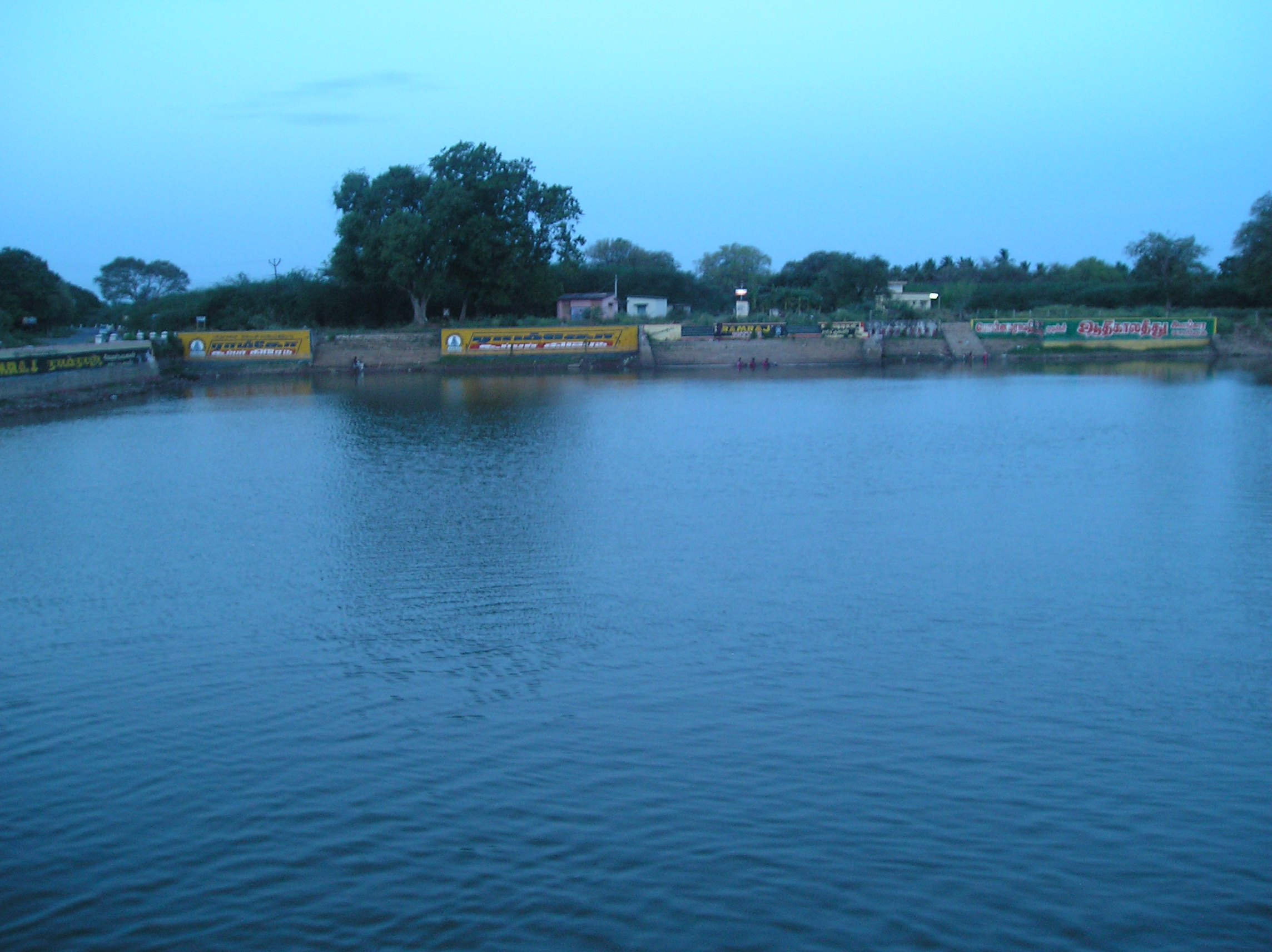 Thirukkottiyoor